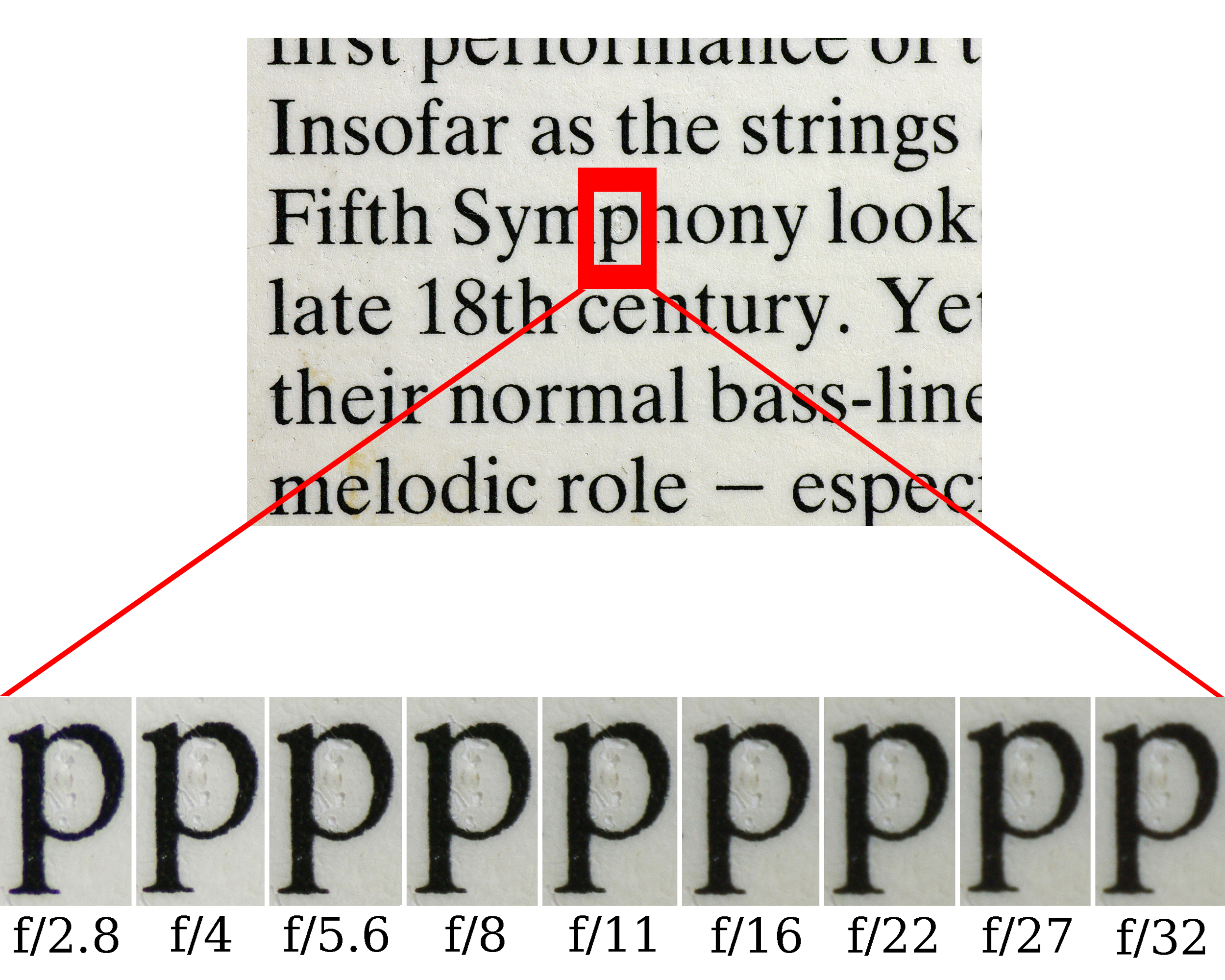 Effect of diffraction blur in (macro) photography, accompanied by a loss of resolution/sharpness with decreasing apertures. The picture series was made with a DSLR (sensor size APS-C) and a 90 mm (FF equ. 135 mm) macro lens at minimum focal distance (~29 cm) and maximum magnification ratio (1:1) at nine different aperture settings. The best results can be seen between f/4 and f/8. Afterwards, resolution/sharpness are getting weaker more and more. On the other hand, a smaller aperture enables a wider depth of field.